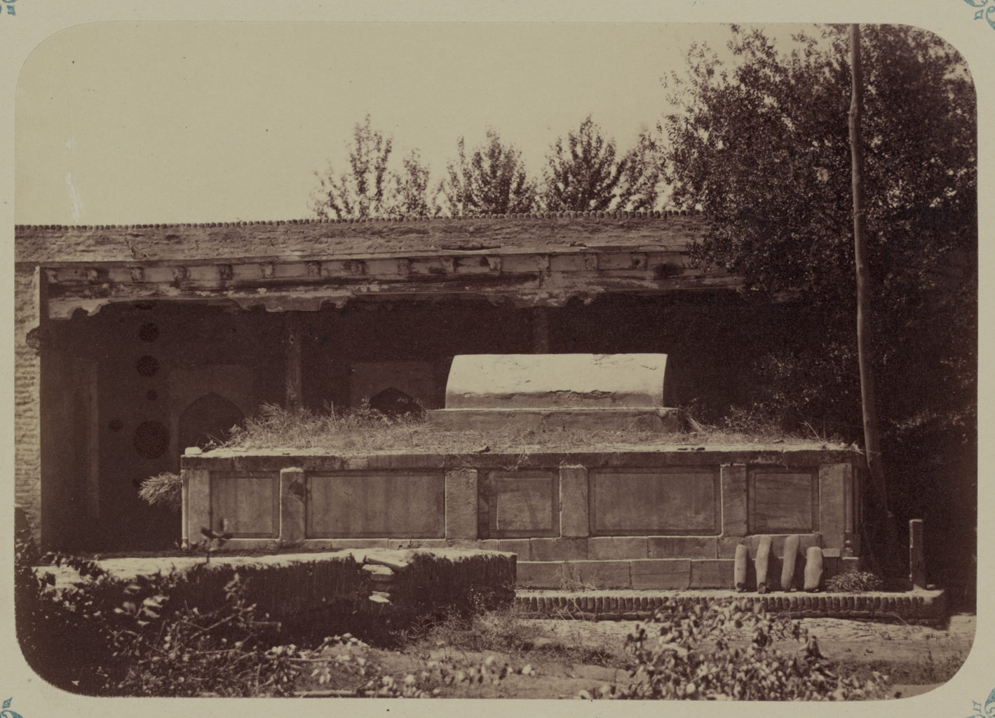 This photograph of the grave at the Khodzha Abdu-Berun memorial complex in Samarkand (Uzbekistan) is from the archeological part of Turkestan Album. The six-volume photographic survey was produced in 1871-72 under the patronage of General Konstantin P. von Kaufman, the first governor-general (1867-82) of Turkestan, as the Russian Empire’s Central Asian territories were called. The album devotes special attention to Samarkand’s Islamic architectural heritage. The Khodzha Abdu-Berun ensemble was dedicated to a revered 9th-century Arab judge of the Abdi clan, with the word berun (outer) added to specify its location adjacent to a cemetery on the outskirts of Samarkand, and to distinguish it from another ensemble commemorating the sage that was located within the city. The khanaka, or memorial mosque, was built in the first half of the 17thcentury by Nadir Divan-Begi, vizier to the Bukharan ruler Imam-Quli Khan. Shown here is the dakhma, or saint’s grave, a simple pointed rectangular form elevated on a stylobate surfaced with stone. In the background is the ensemble’s open summer mosque. The memorial mosque is to the left, but only its brick porch is visible, not the structure itself. To the right is a pool (also not visible), which created an oasis of greenery at the site. The ensemble signifies the antiquity of Islamic law in this area. Mosques; Photographic surveys; Sarcophagi; Sepulchral monuments; Tombs